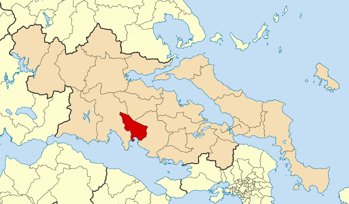 Locator map for Distomo-Arachova municipality in Greek region Central Greece (2011)